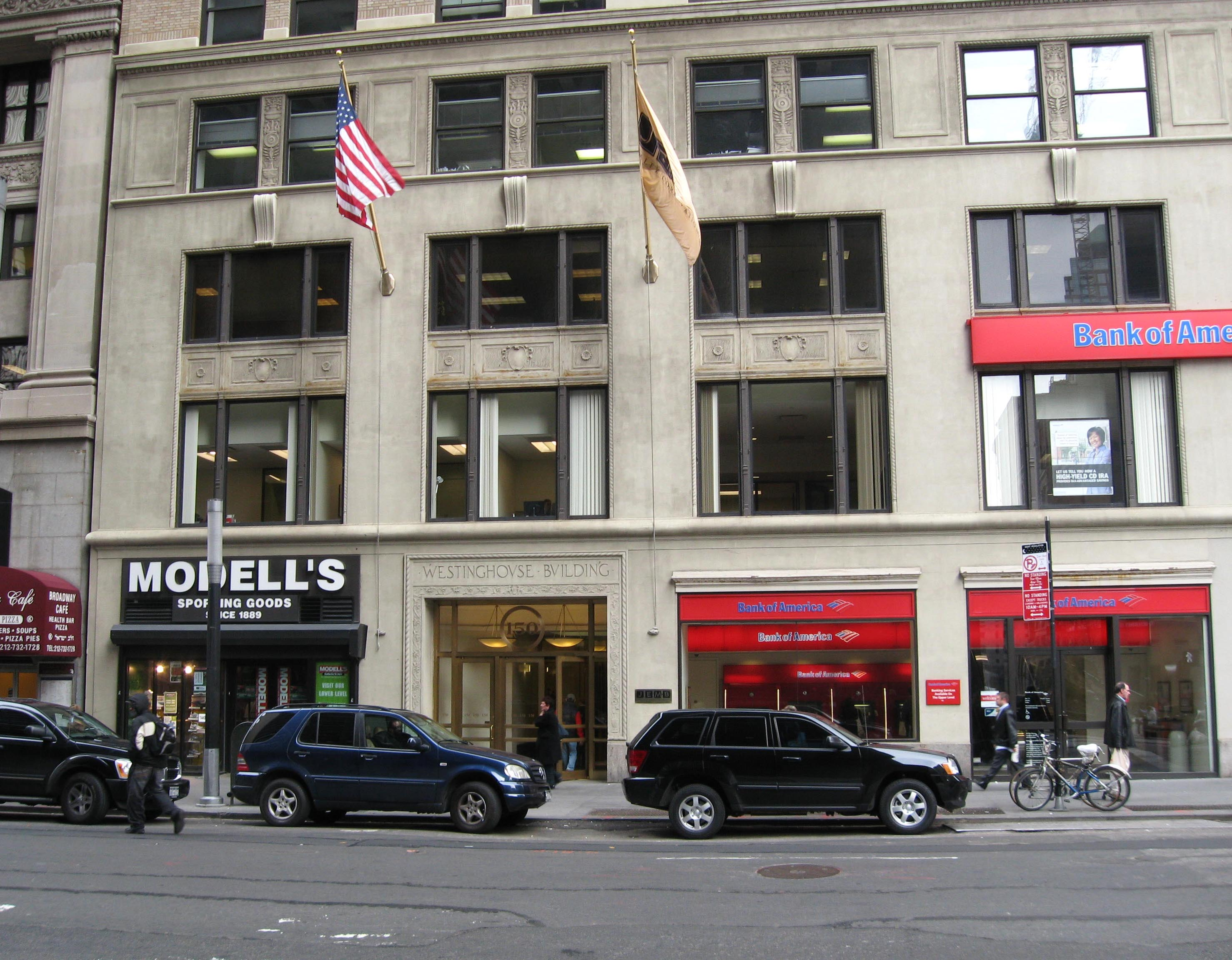 Looking east at former Westinghouse HQ at 130 Broadway, north of Liberty Street.